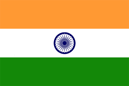 India flag 300px height, unified for the national flags serie, borders removed, high compression ratio, some color or ratio corrections from